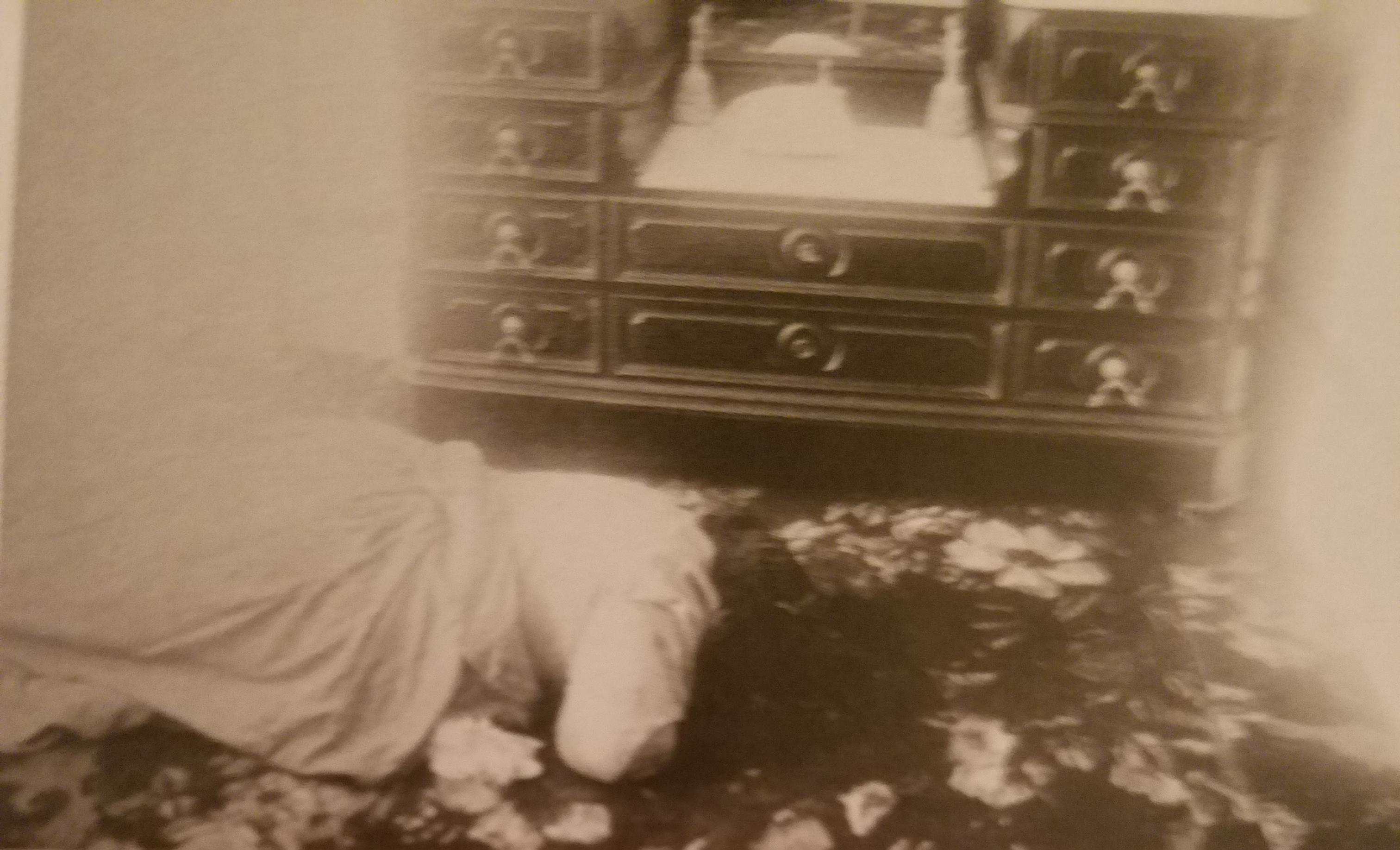 Dead body of Abbey Gray Borden, mother of Lizzie Borden, slain in her home in Fall River, Massachusetts in 1892.